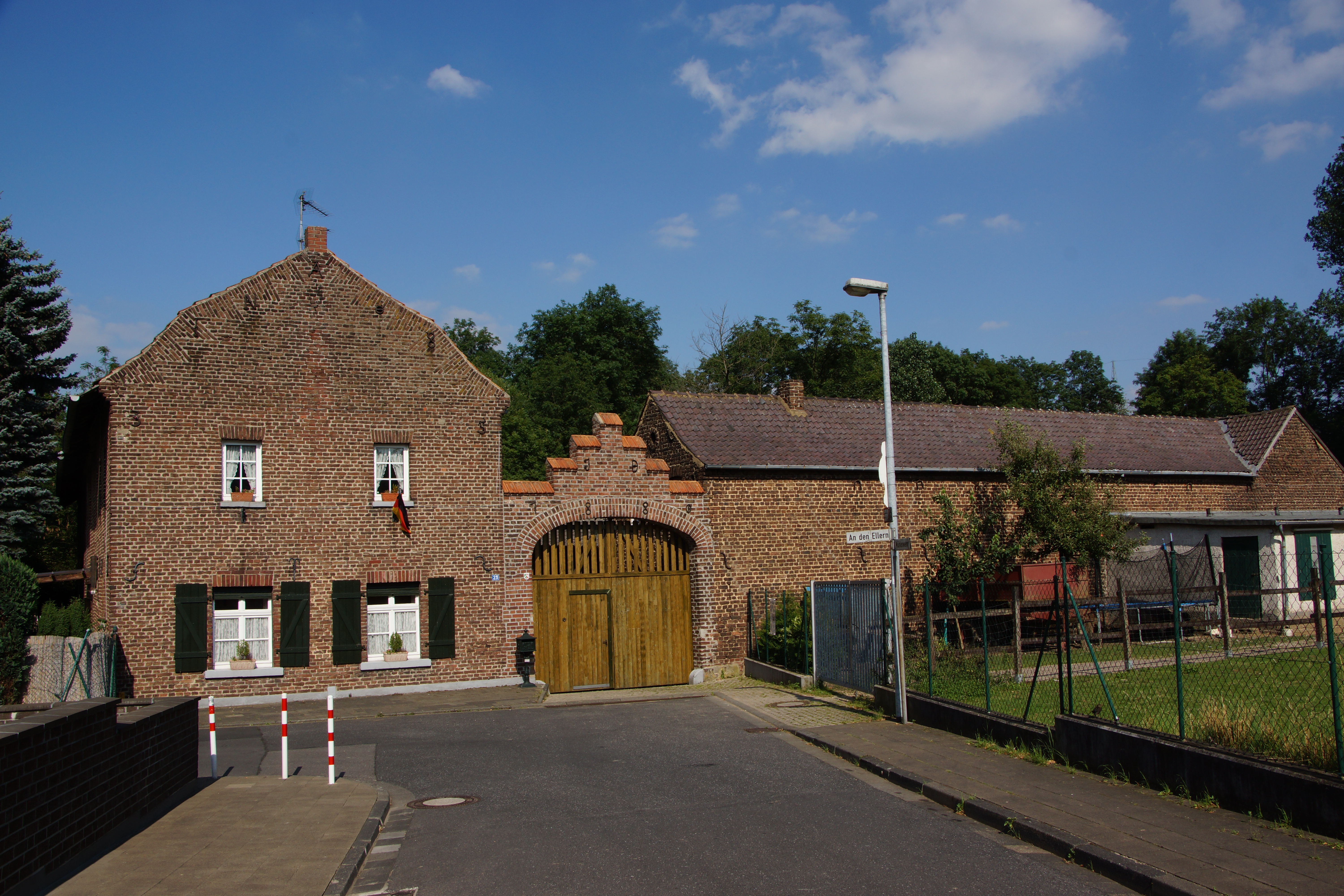 Front of old watermill in Paffendorf, part of Bergheim, Germany